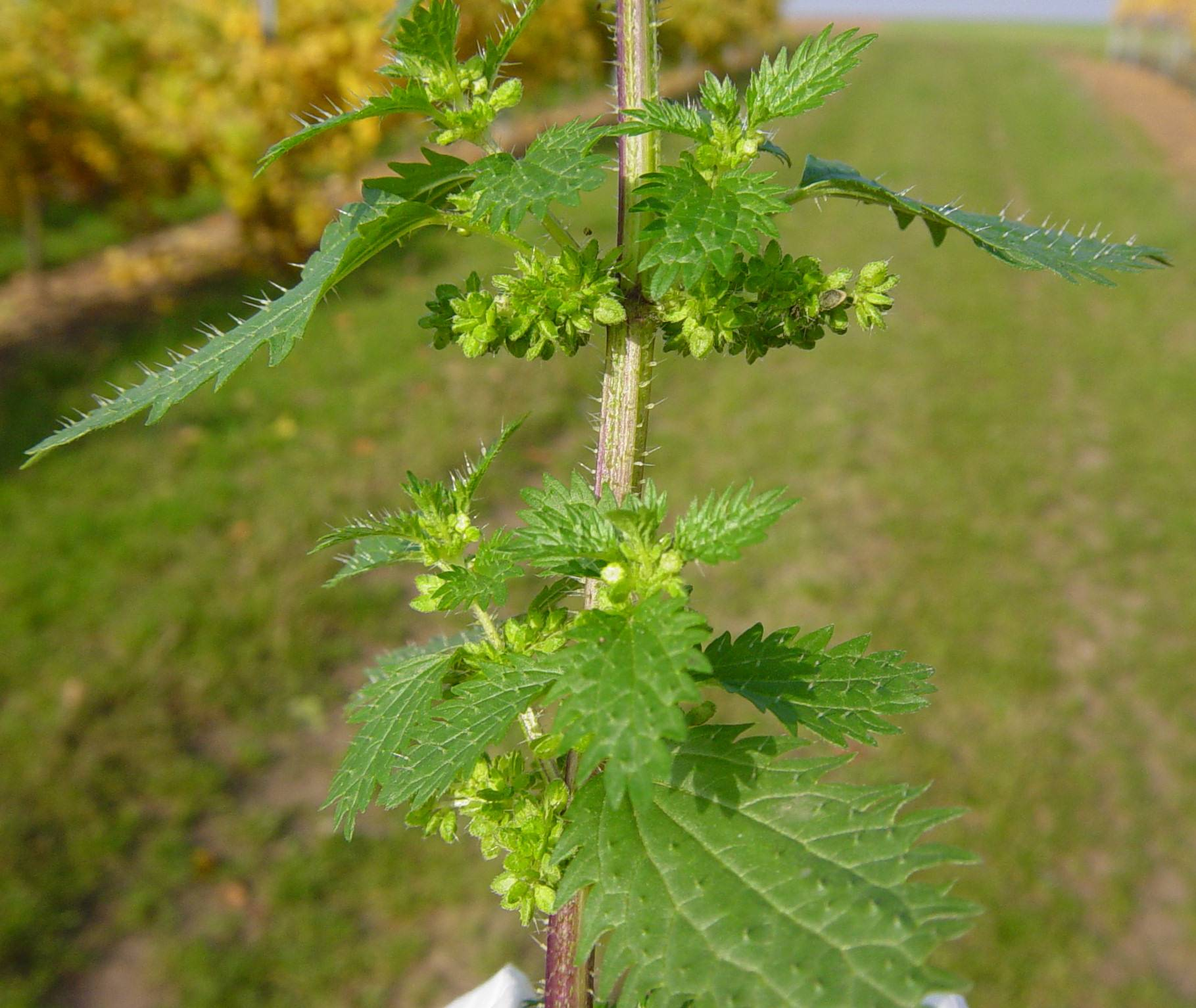 Close-up of Urtica urens